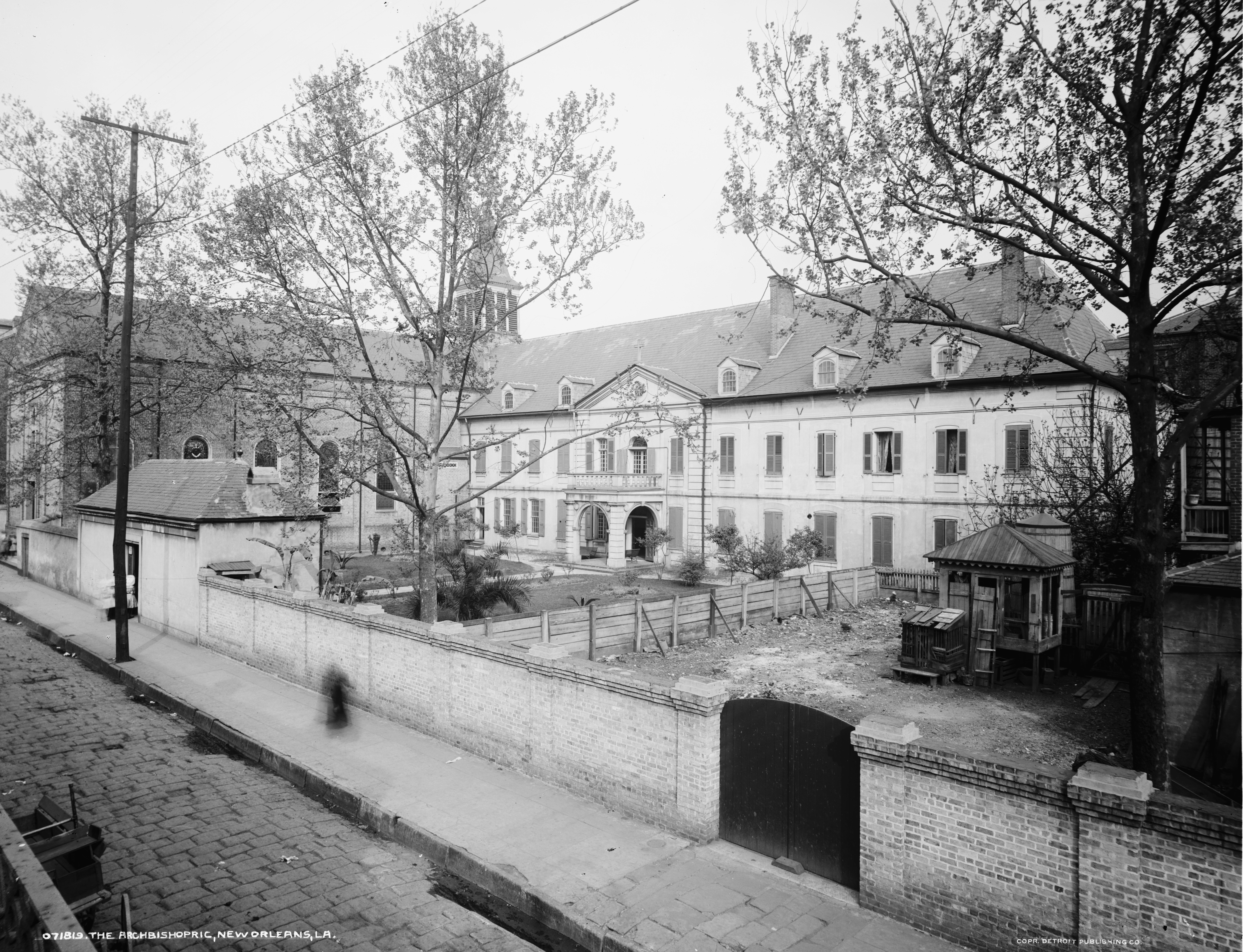 The Archbishopric, New Orleans, Louisiana. Photo of the Archbishop's Palace in the French Quarter (former old Ursuline Convent building), New Orleans, circa 1910